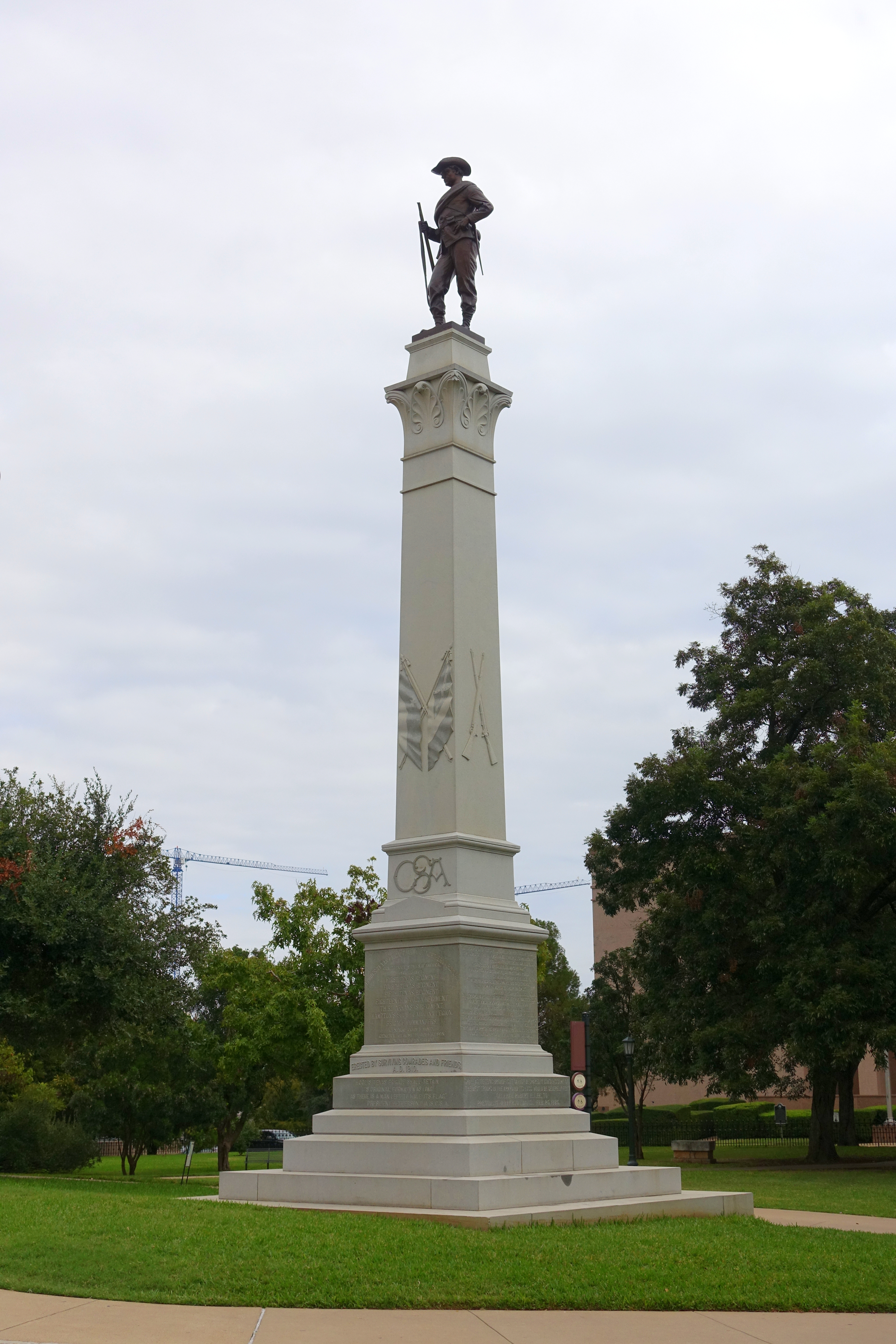 Hood's Texas Brigade monument - Texas State Capitol grounds, Austin, Texas, USA. Dedicated in 1910.